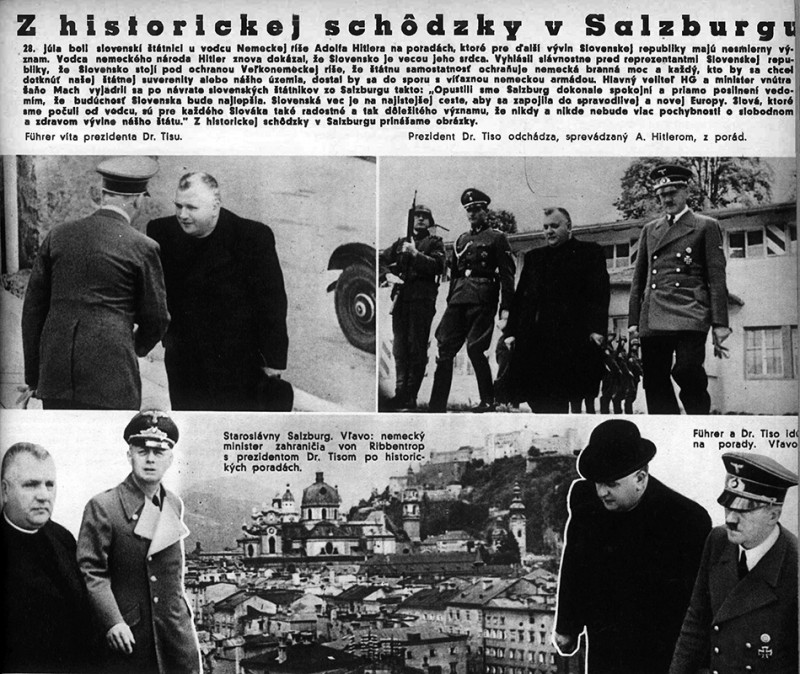 Pictures from the Salzburg Conference (1940), published in Nový svet